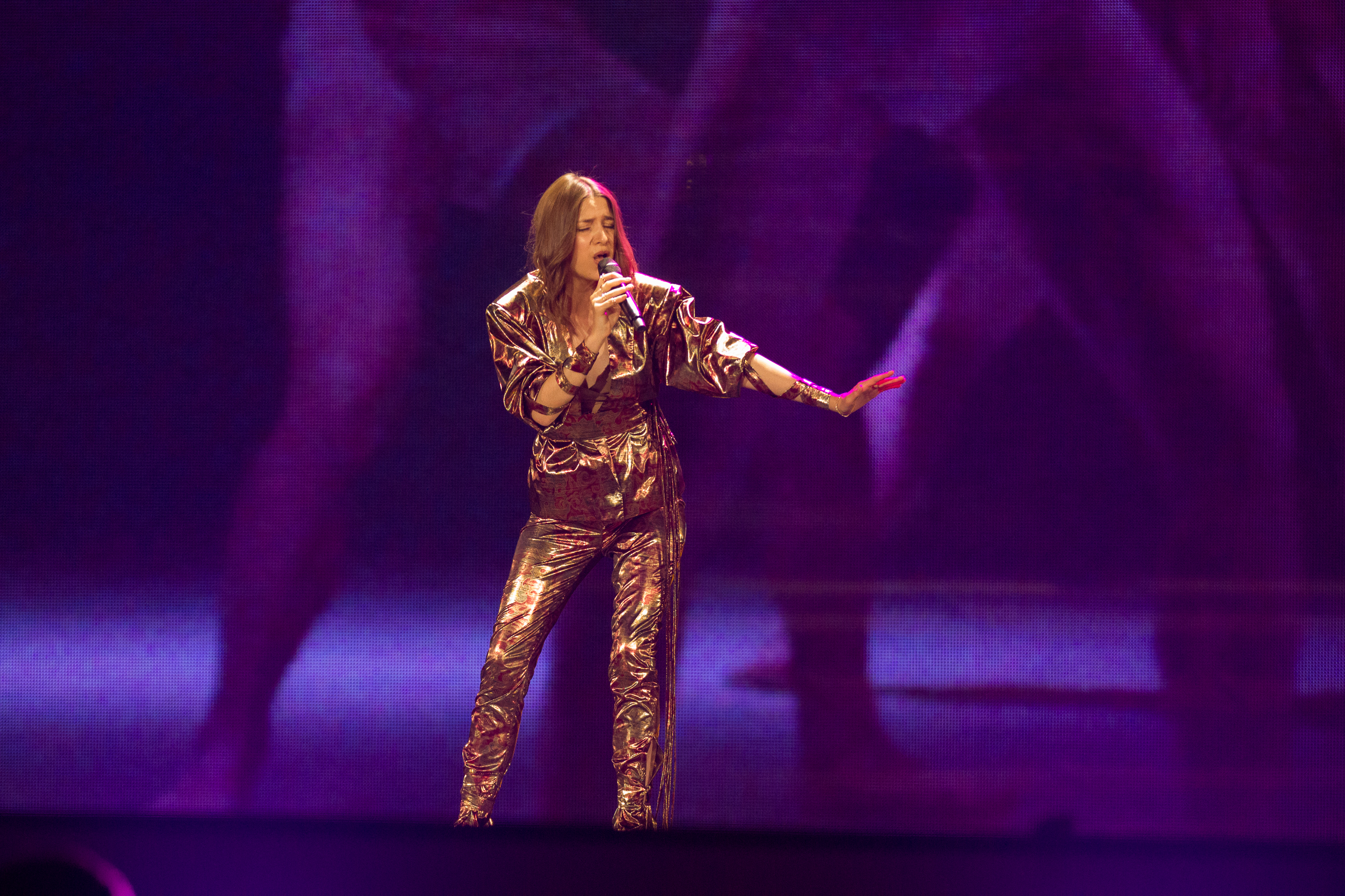 Martina Barta representing Czech Republic with the song "My Turn" during a rehearsal before the first semi final of the Eurovision Song Contest 2017 in Kiev.